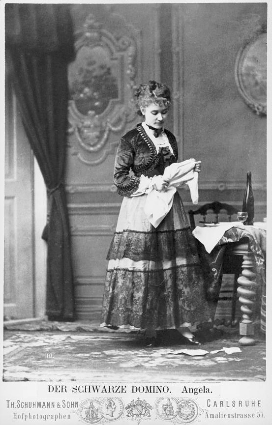 German Opera singer Bianca Bianchi (Bertha Schwarz, 1855—1947) in the role of Angela in "Black Domino" by Auber